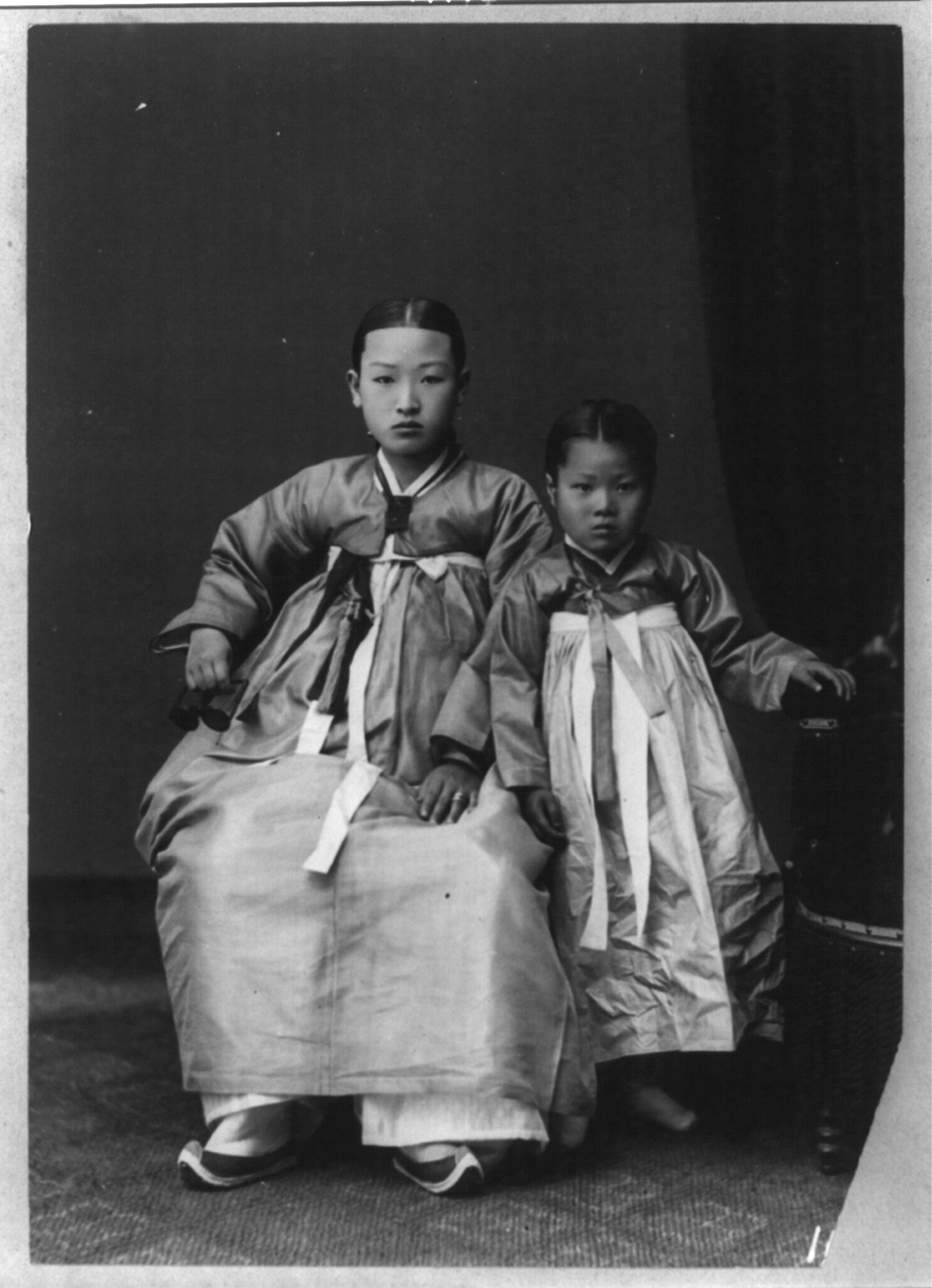 Korean woman and her daughter in old fashioned costumes.